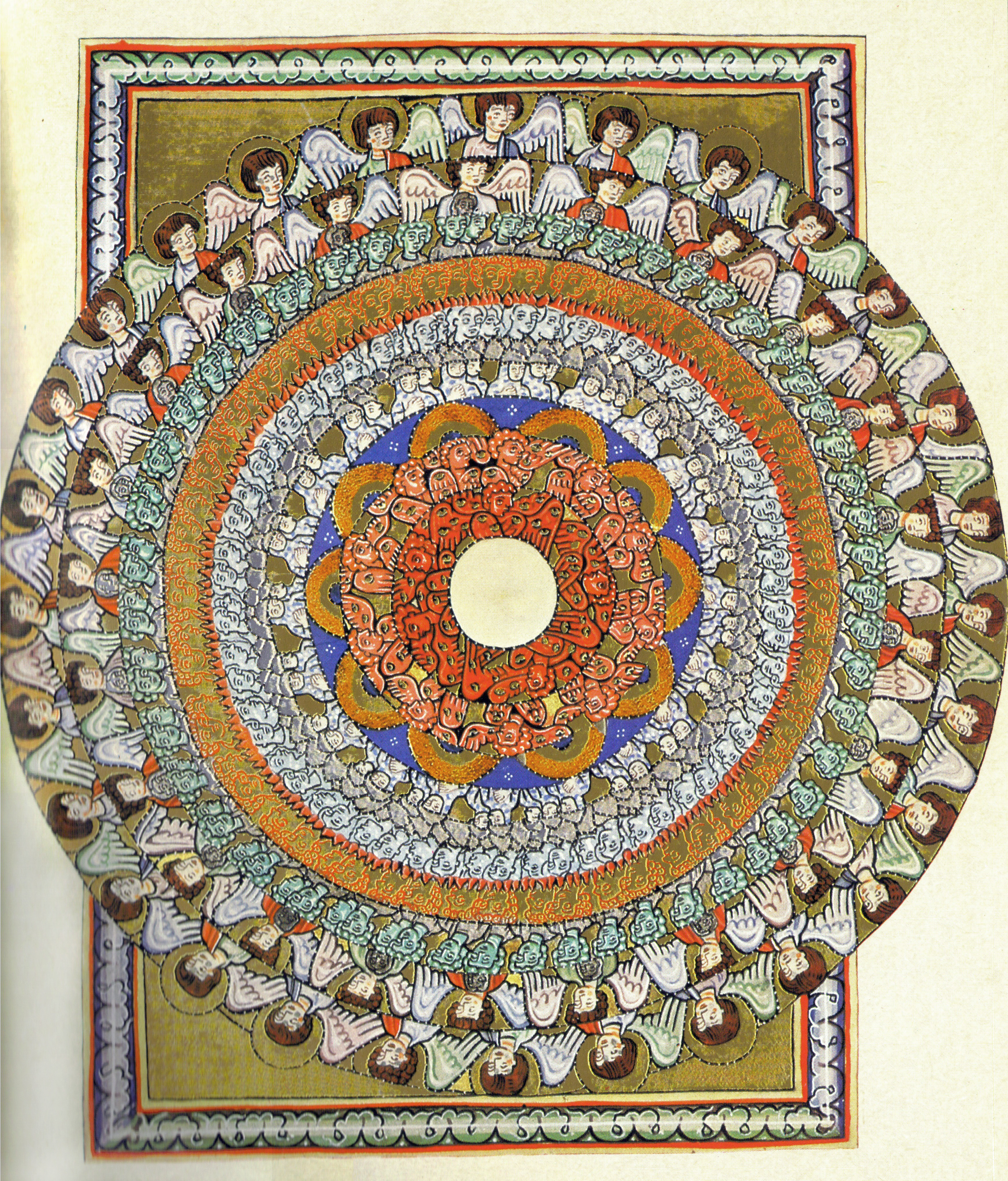 Vision of the angelic hierarchy